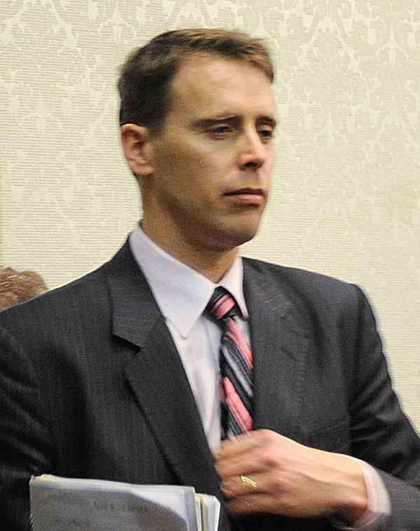 Stephen Mayne in Melbourne at declaration of senate nominations